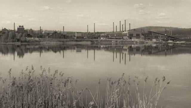 Hofors Iron works with the Ho lake in the forground. The picture is most likely taken where the swedish national road 80 is now.